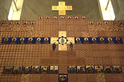 Biserica Schimbarea la față, Cluj-Napoca (Silviu Oravitzan)